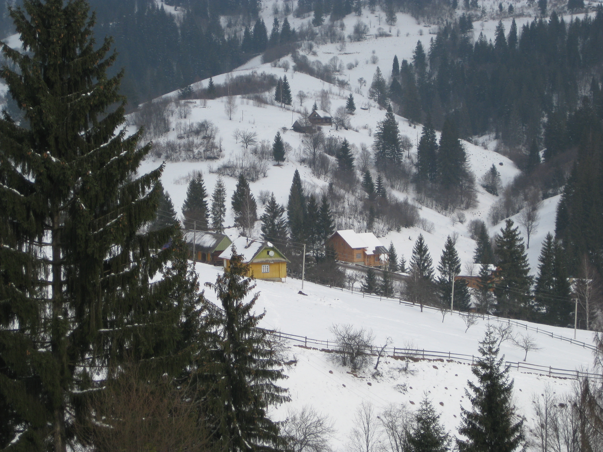 Slavs`ke